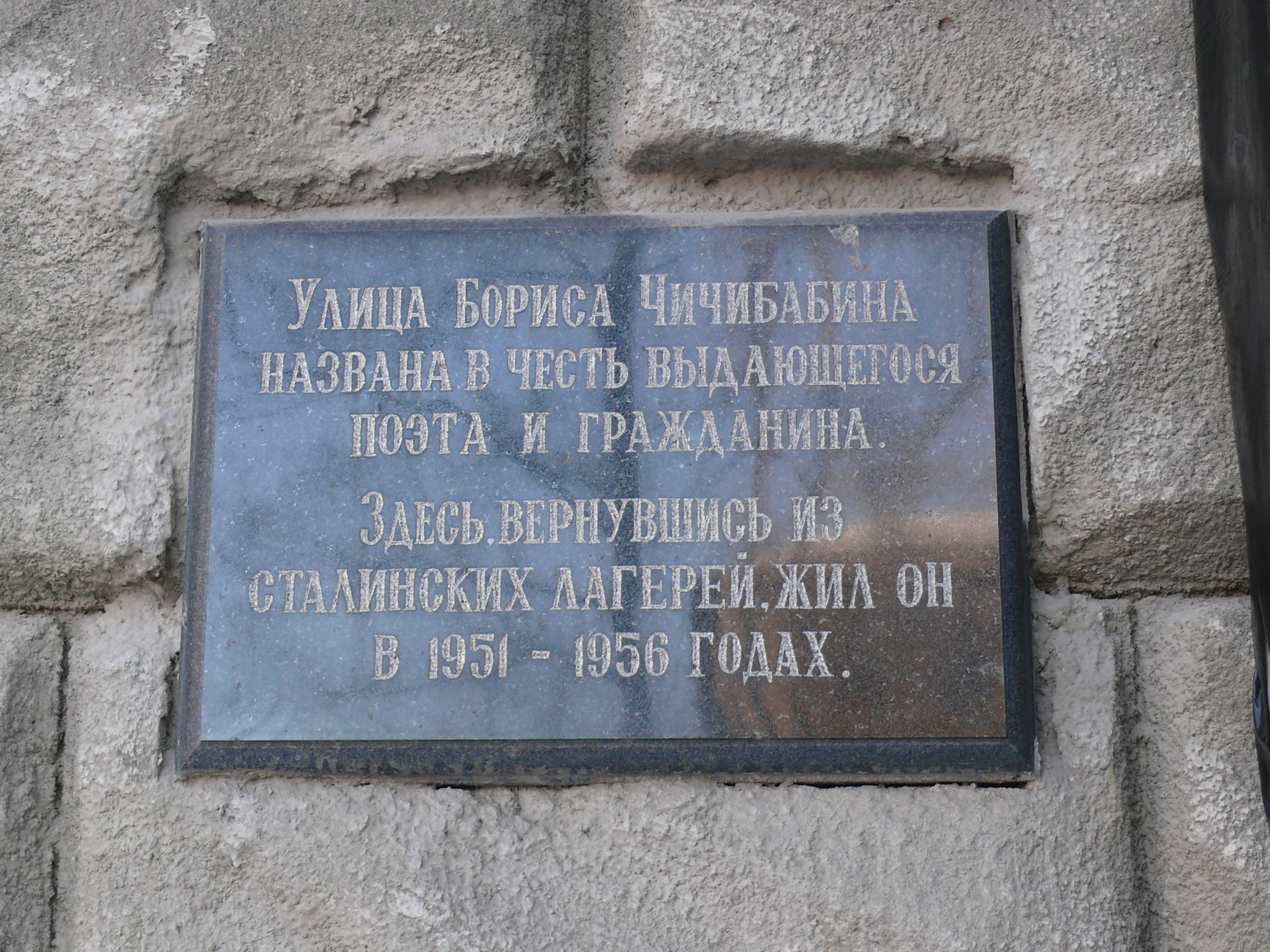 Chichibabin Street in Kharkov.